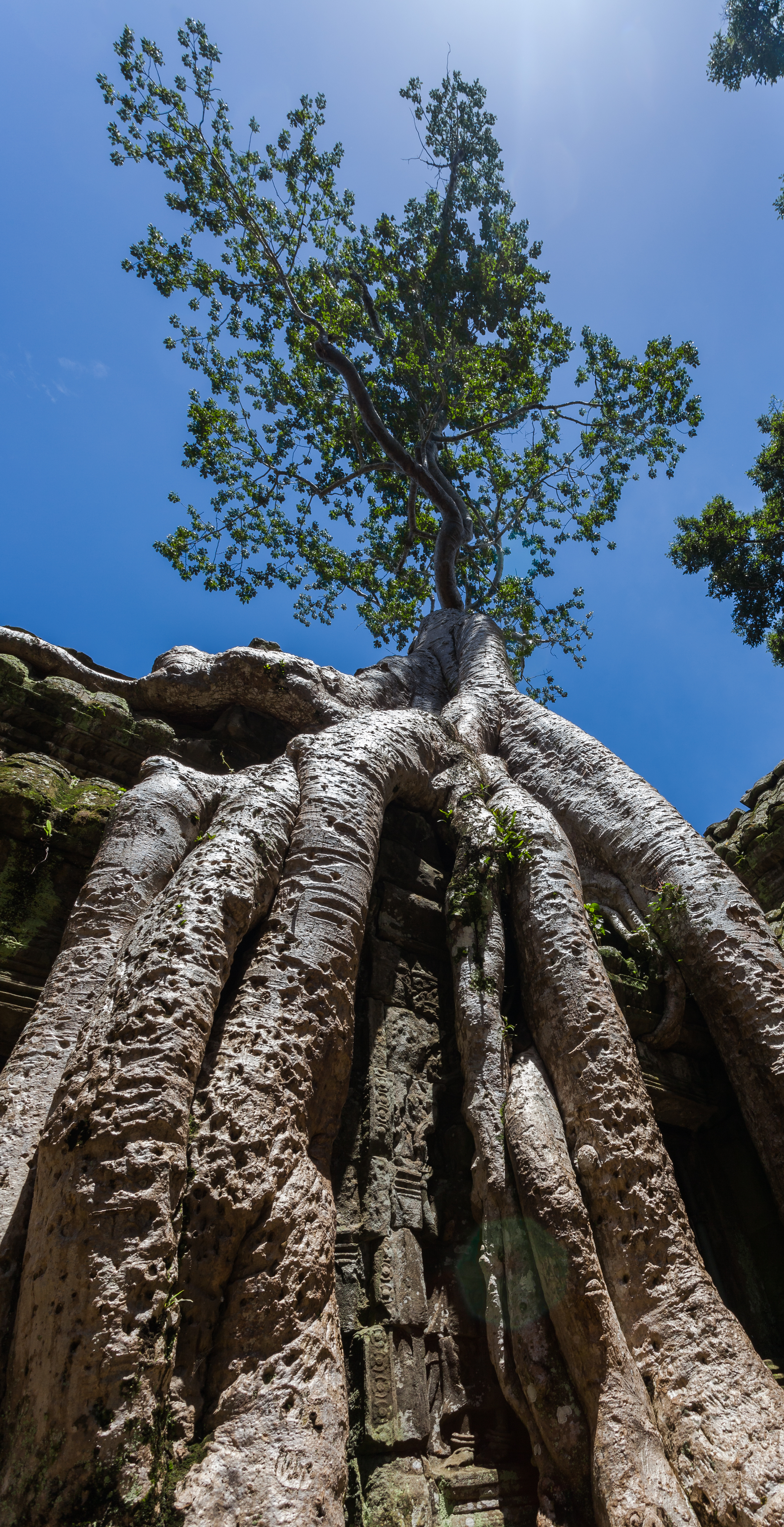 Ta Phrom, Angkor, Cambodia